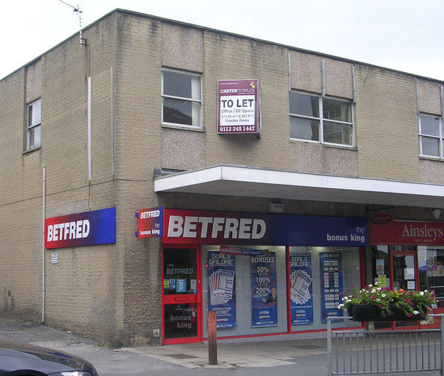 BETFRED - Church Lane